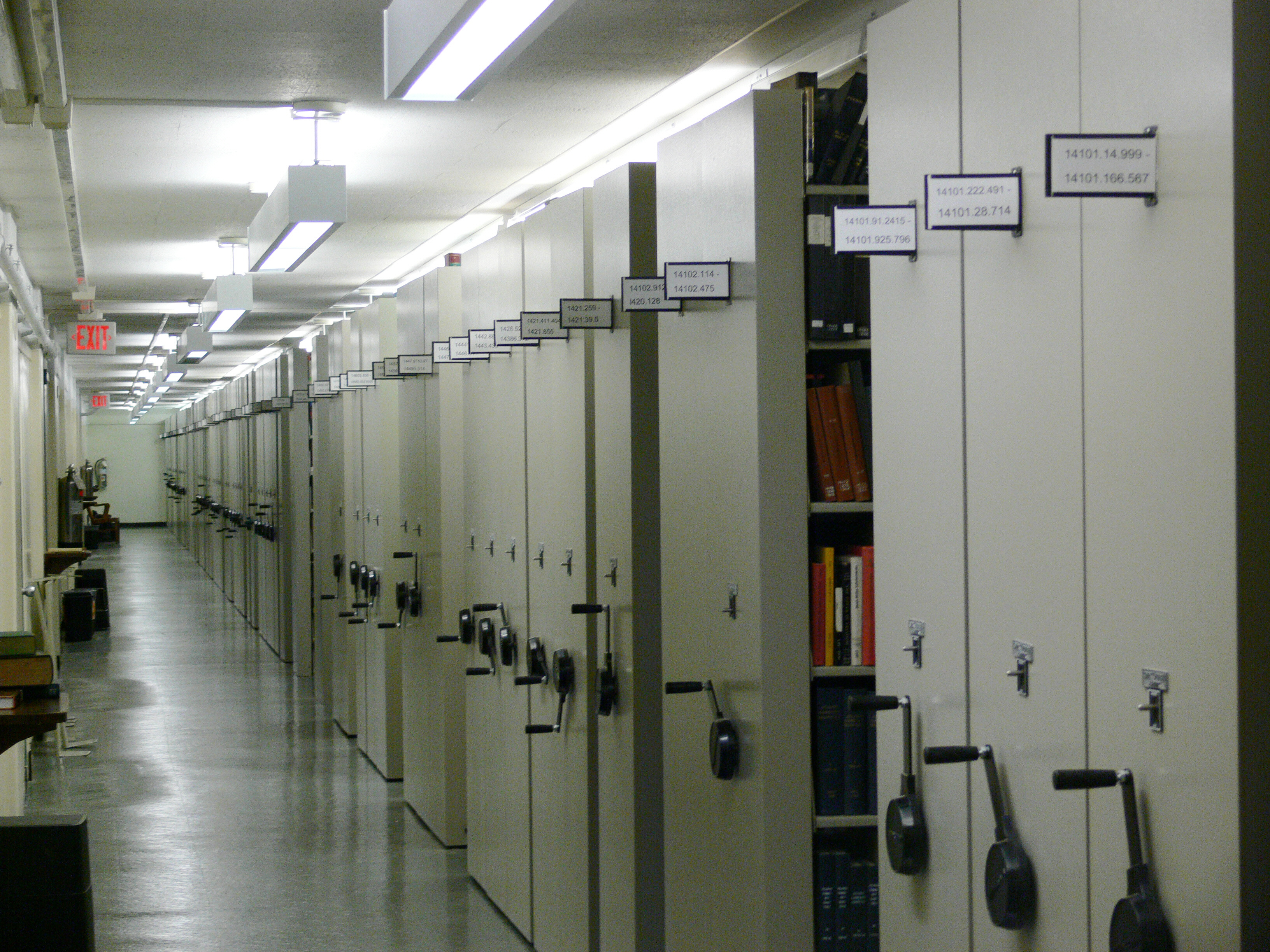 Mobile aisle shelving (rolling shelves) in one of the basement levels of Harvey S. Firestone Memorial Library (main building of Princeton University Library) Princeton University; Princeton, NJ